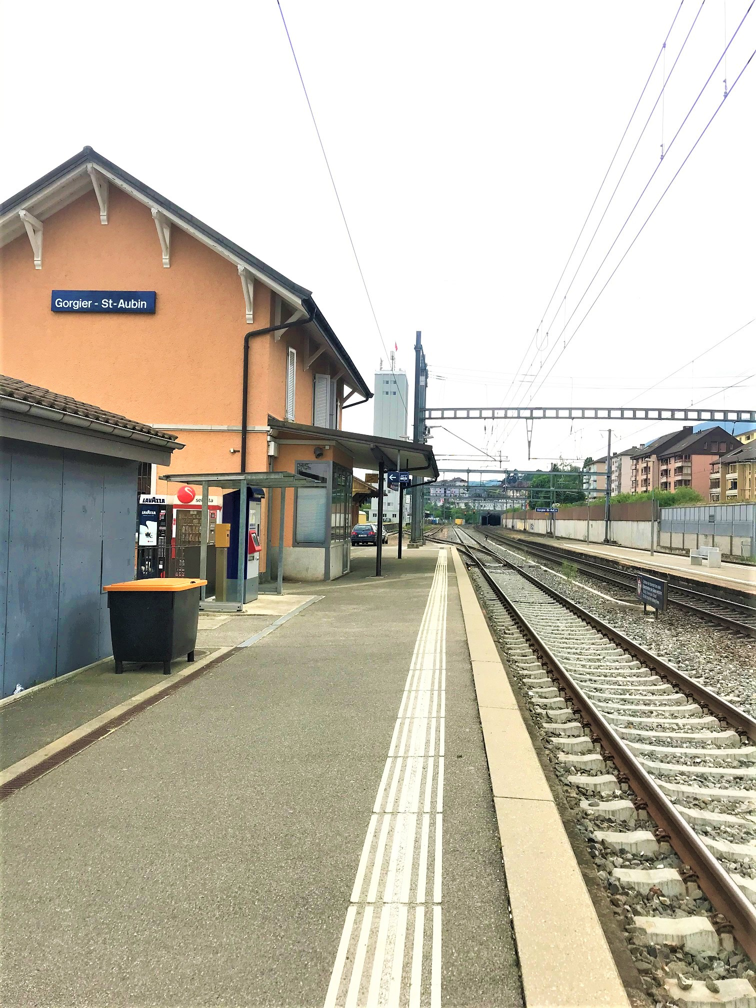 Gorgier railstation 20